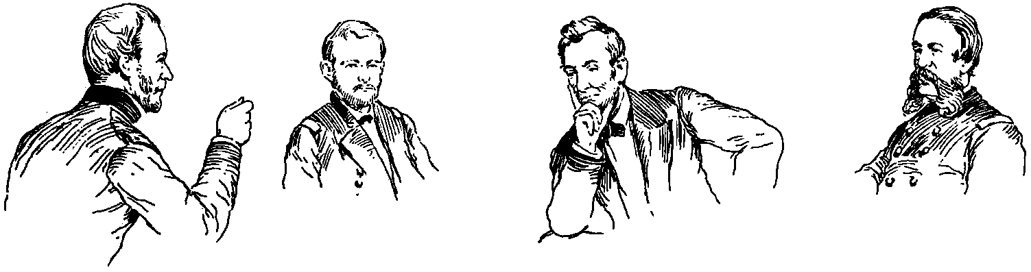 Line-drawing rendition of a painting by G. P. A. Healy - The Peacemakers